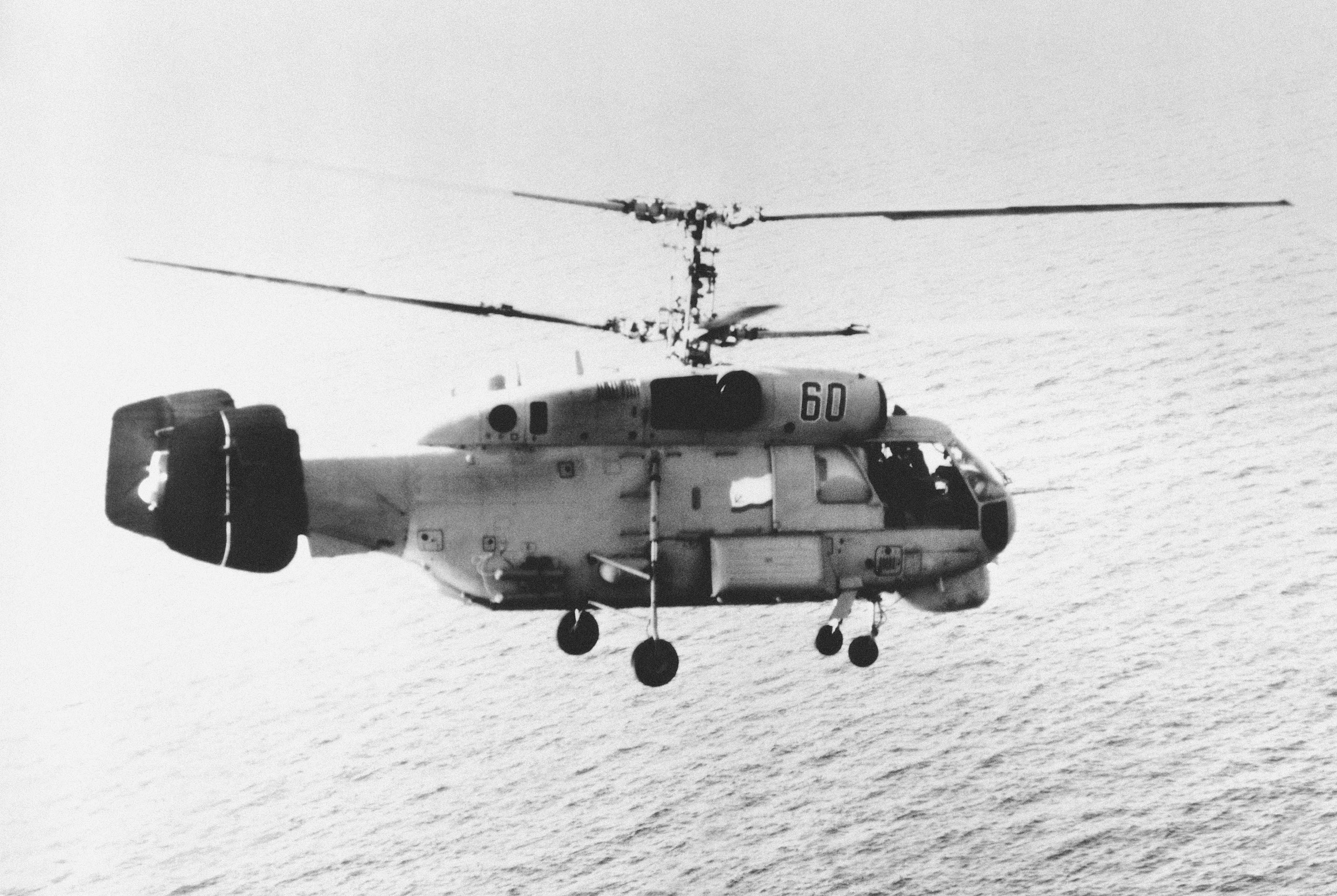 An air-to-air right side view of a Soviet navy Ka-27PL (by NATO "Helix A") helicopter.